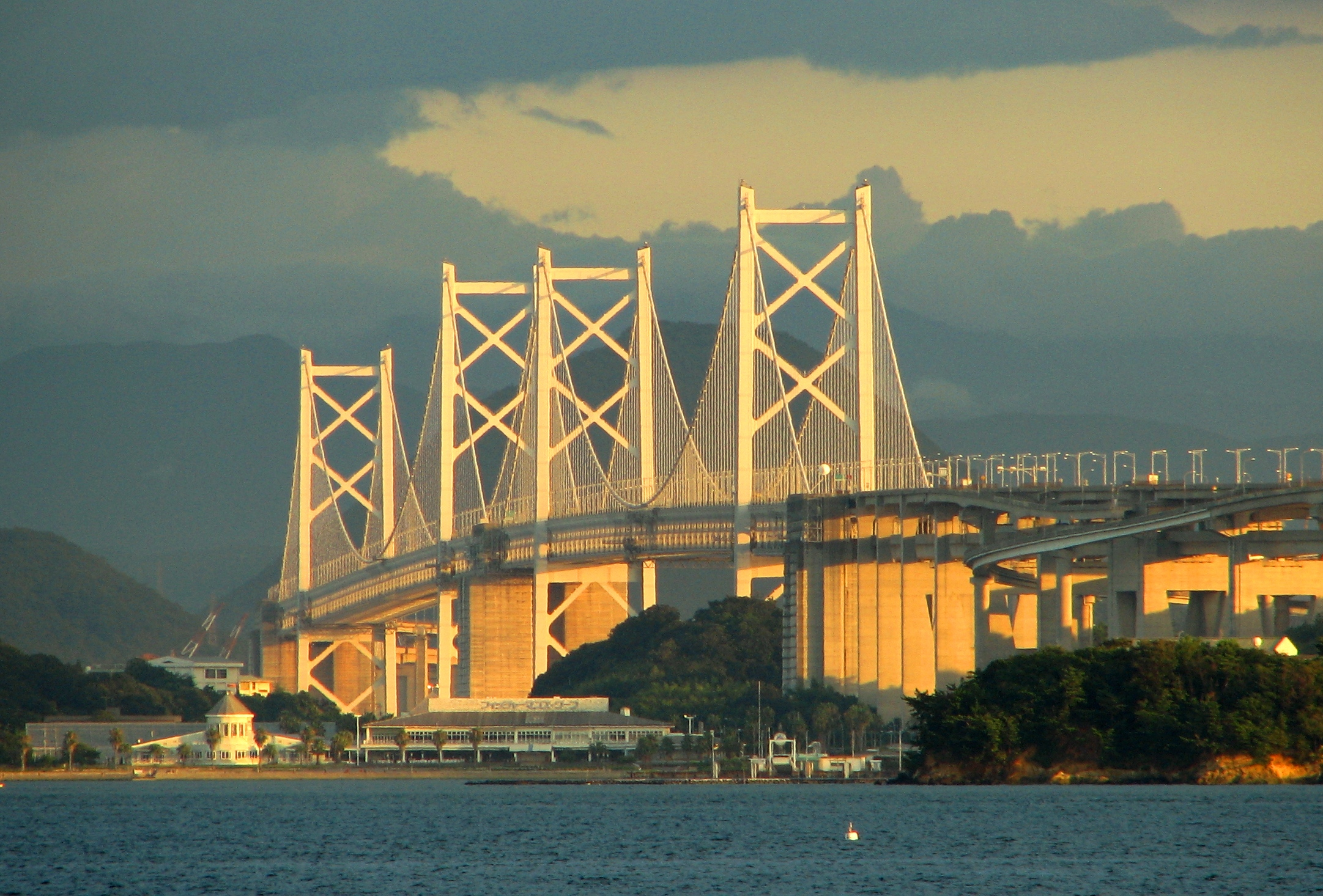 The Minami Bisan-Seto and Kita Bisan-Seto Bridges